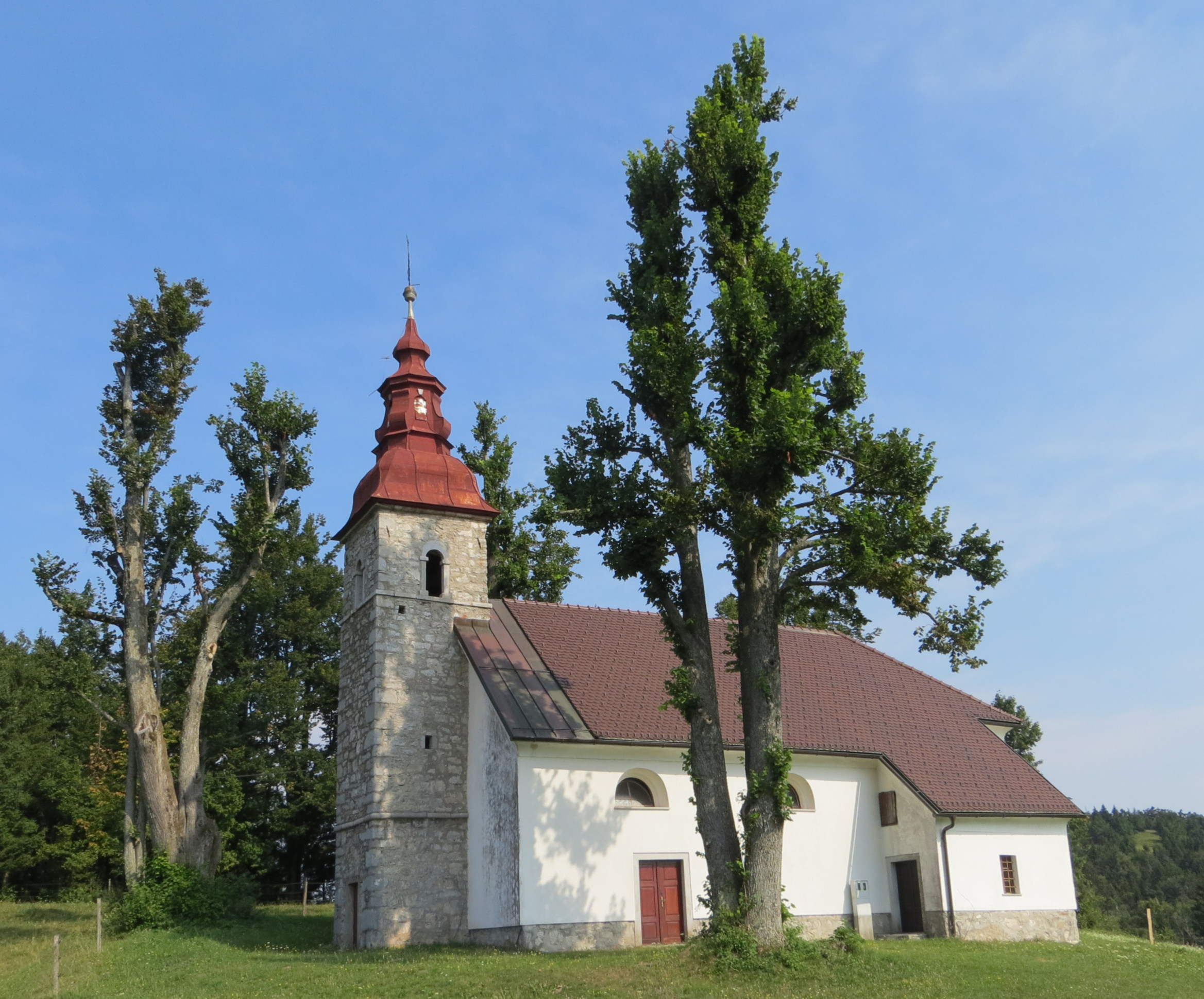 Saint Stephen's Church in Pokojišče, Municipality of Vrhnika, Slovenia